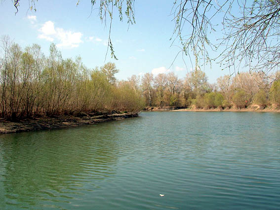 river Turunchuk, Ukraine